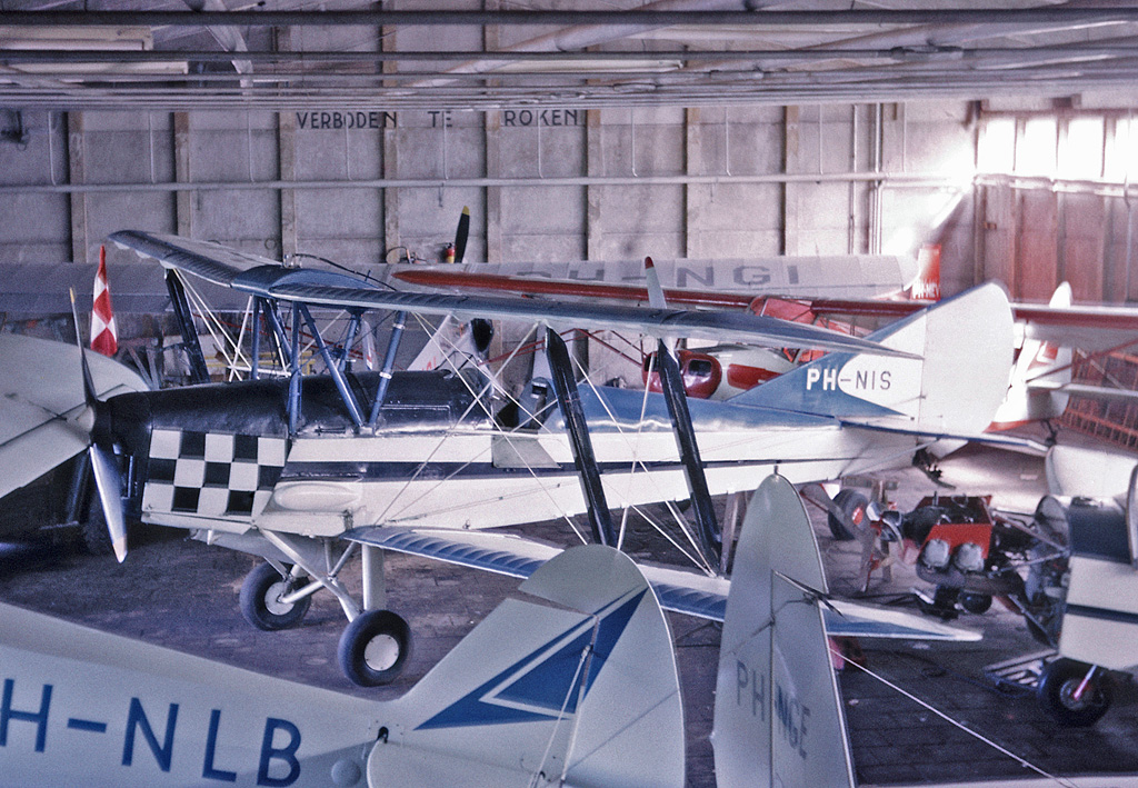 DH.82A Tiger Moth PH-NIS at Hilversum Airfield in 1967 with the extended fin area required by the Netherlands authorities